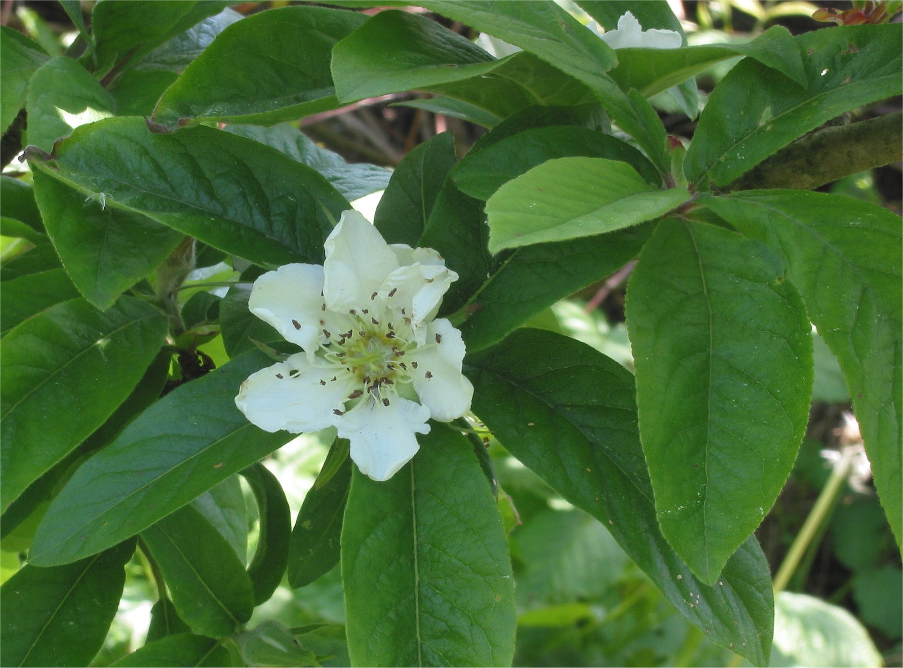 Mespilus germanica flower (Mispelbloem)